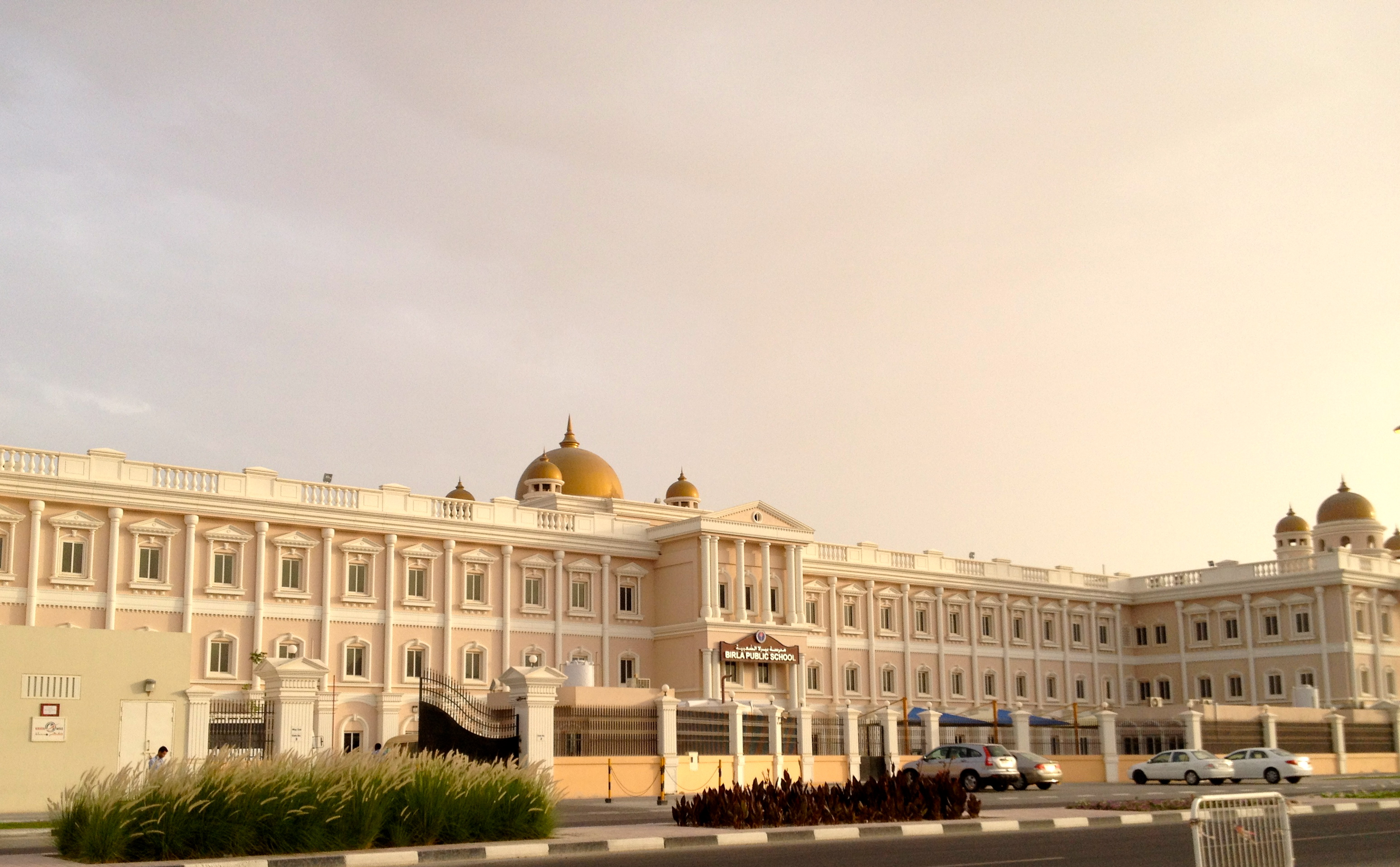 Facade of the Birla Public School in Doha, Qatar.